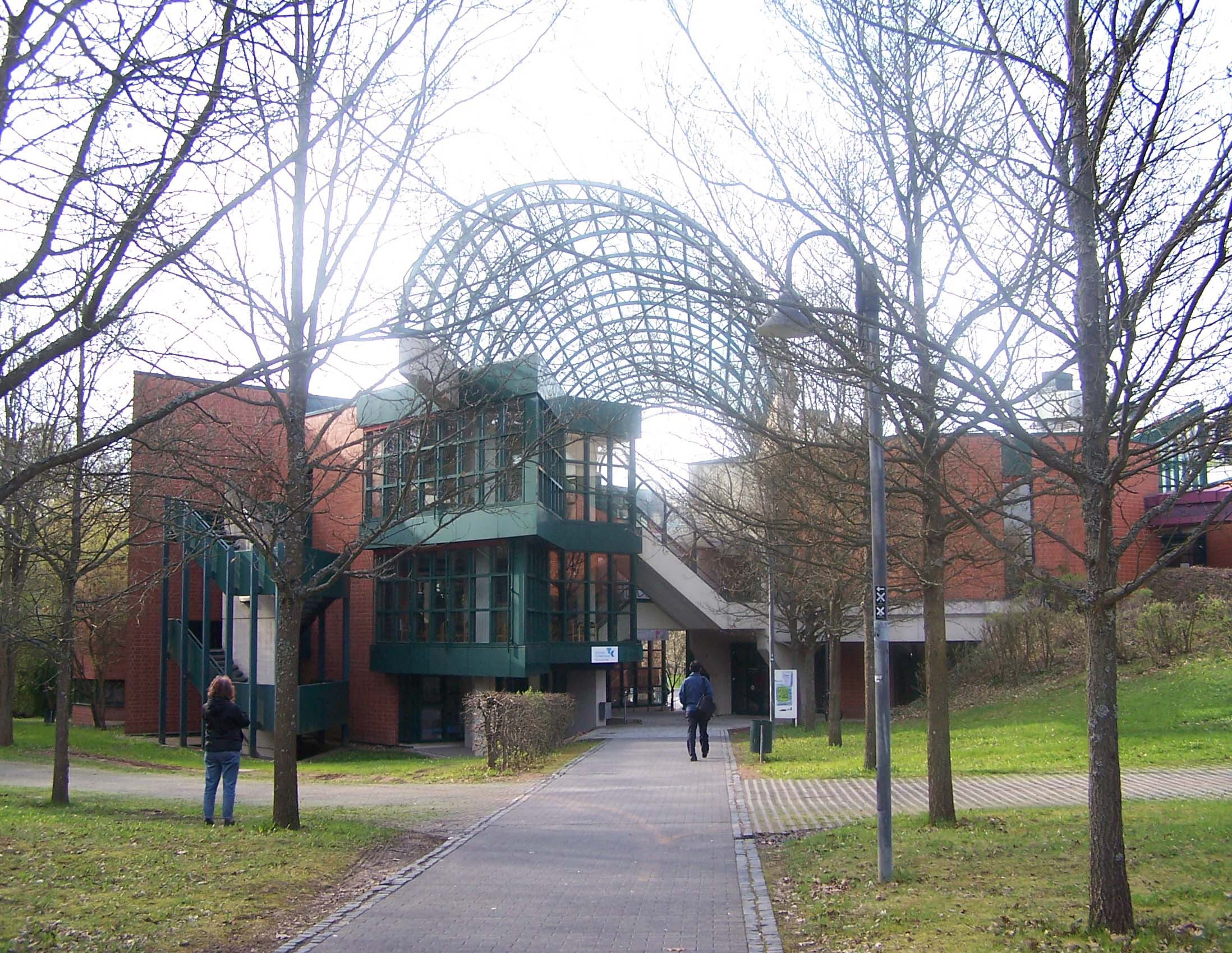 Mensa of the Philipps-University Marburg, Germany